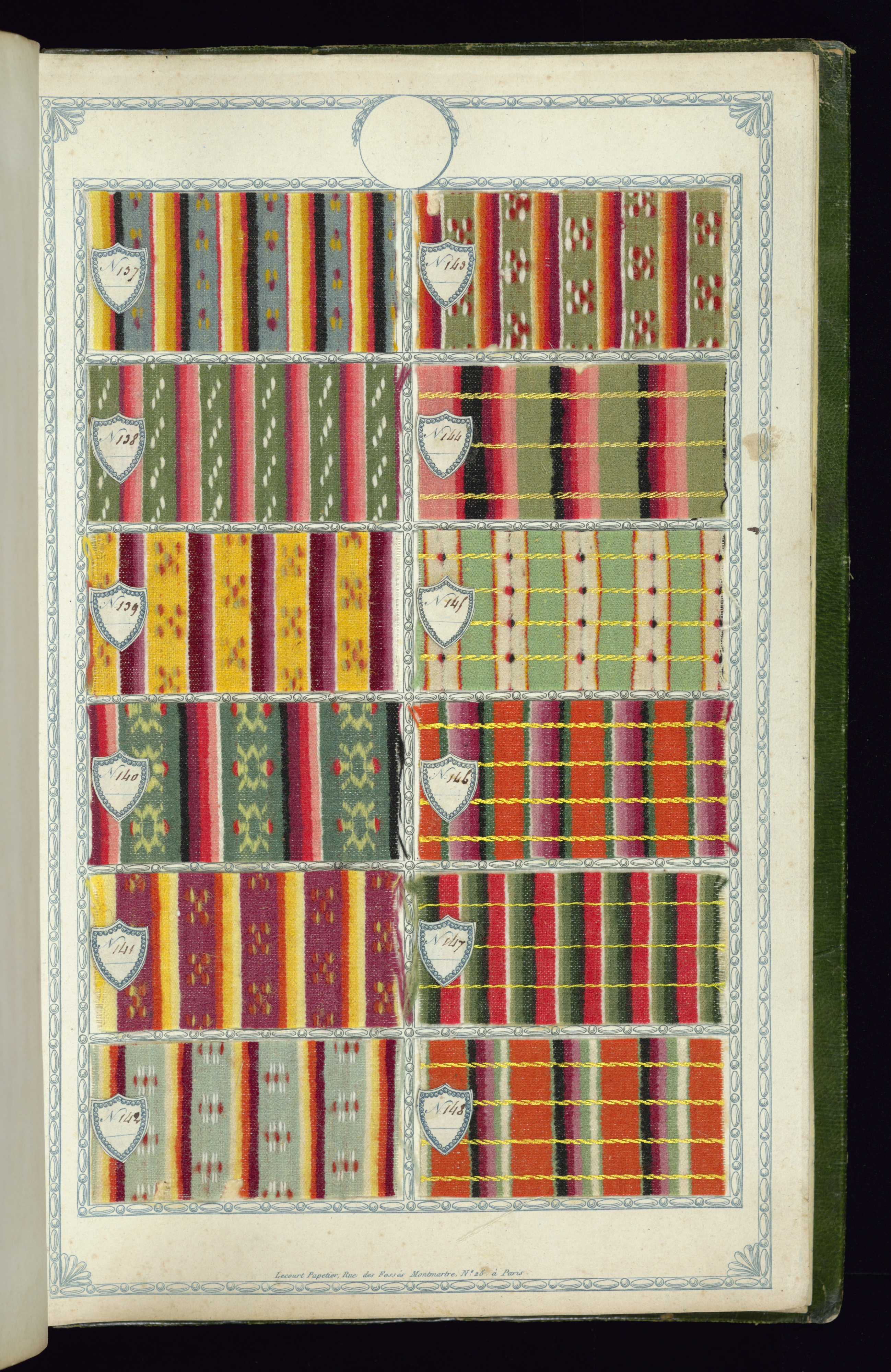 Salesman's sample book of 285 small samples of wool and cotton, mounted on paper and bound in gold-tooled green leather book. Many samples have the appearance of duvetyn, a soft woolen fabric with a downy nap that was used for waistcoats.